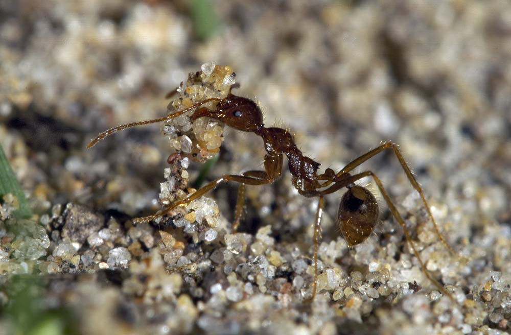 Aphaenogaster longiceps show a preference for nesting in sandy soils. This worker is carrying a clump of sand that has been removed from the nest.